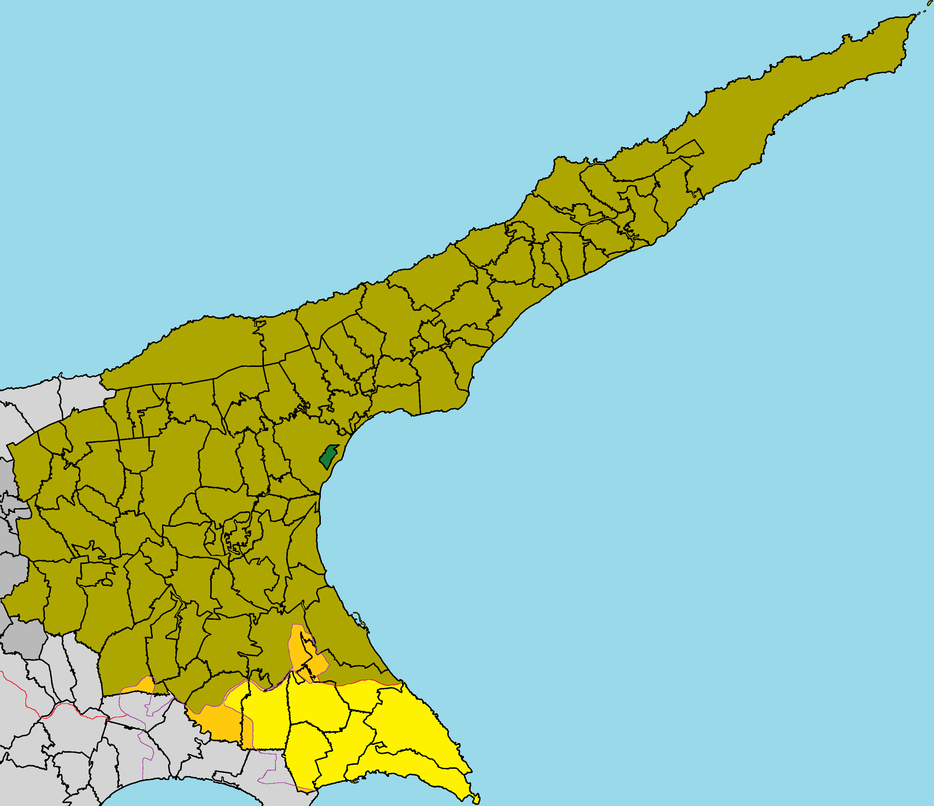 Perivolia Trikomou in Famagusta District (de jure).